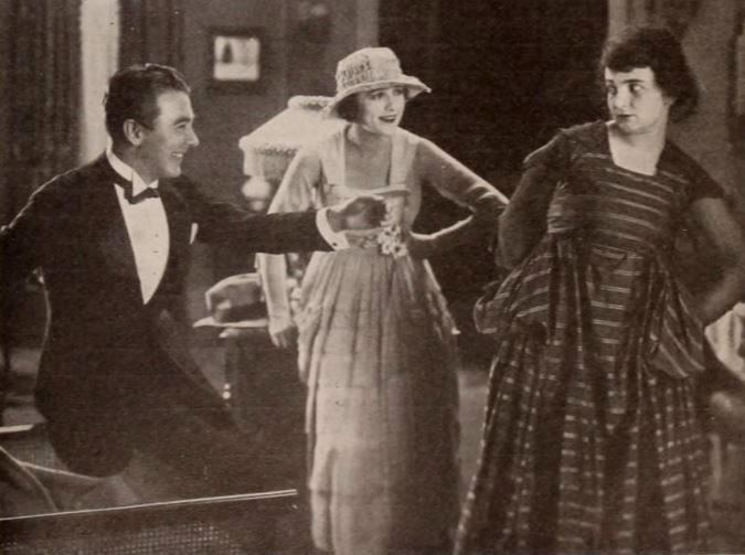 Still from the American drama romance film The Lesson (1917) with Tom Moore, Constance Talmadge, and an unidentified actress, on page 45 of the May 25, 1918 Exhibitors Herald.